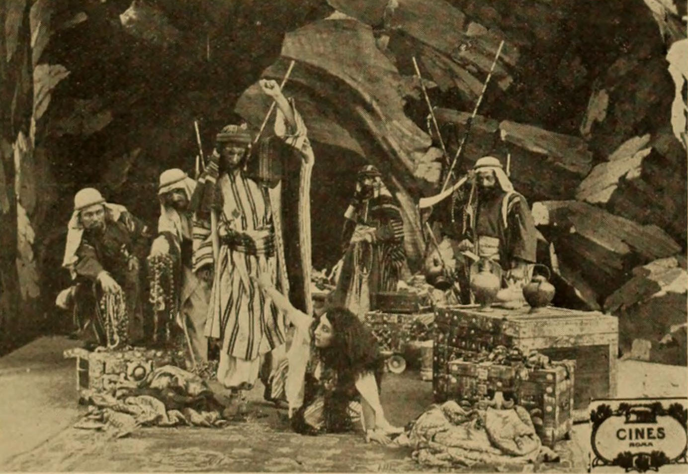 Movie still from Enrico Guazzoni's film Alì Babà (1911) with Gianna Terribili-Gonzales